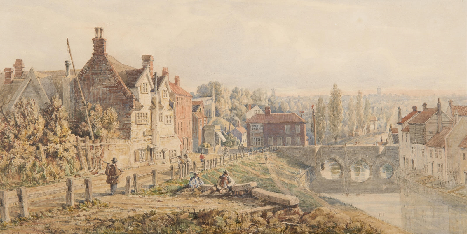 A watercolour of Bishop's Bridge, Norwich, 1872 (John Joseph Cotman)